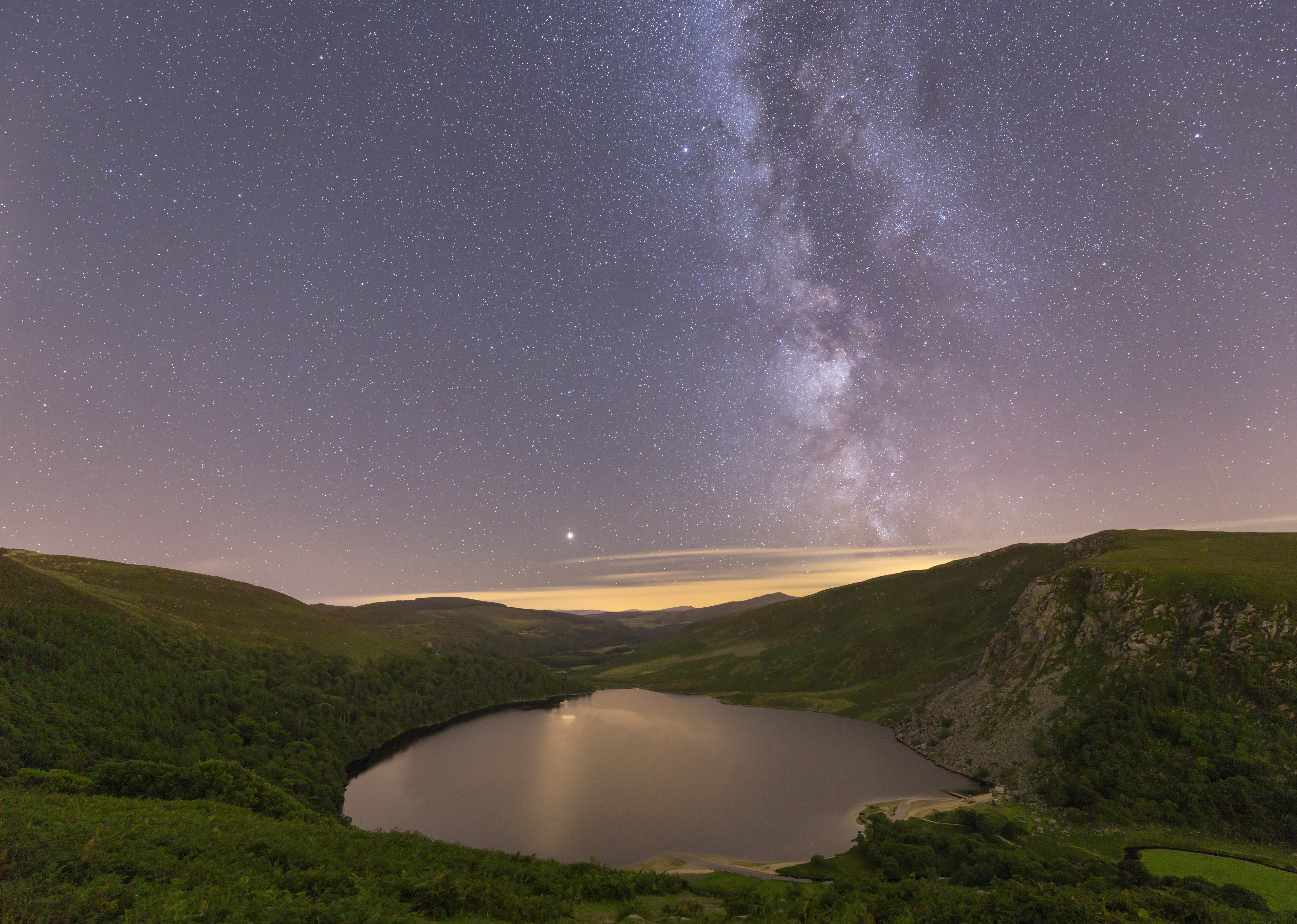 I used a Canon 6D camera with a wide angle lens to take a long exposure of the Milky way over the Guinness lake called Lough Tay in Co. Wicklow Ireland.